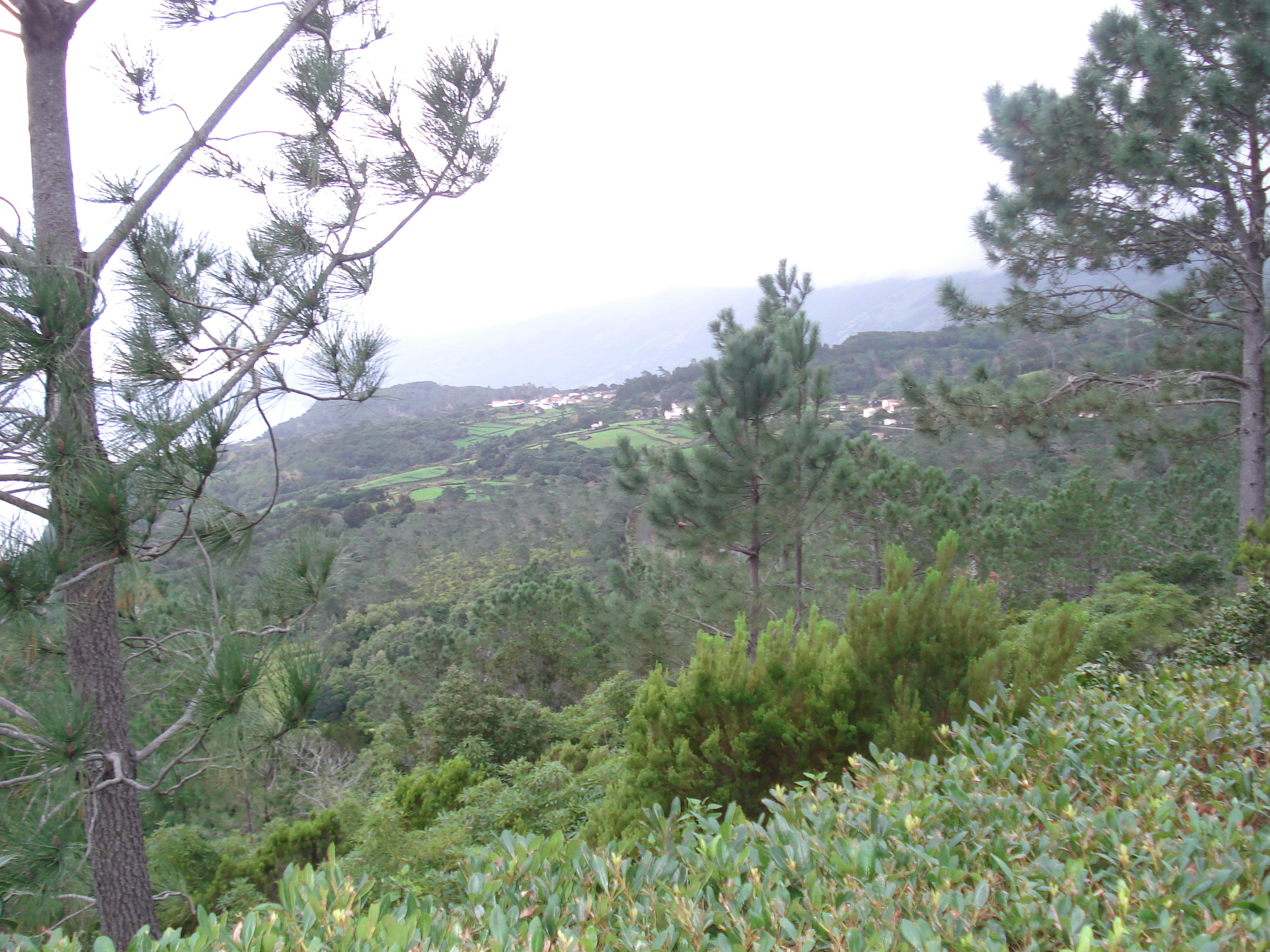 The village of Prainha, as seen from the Forest Parque of Prainha, island of Pico, Azores